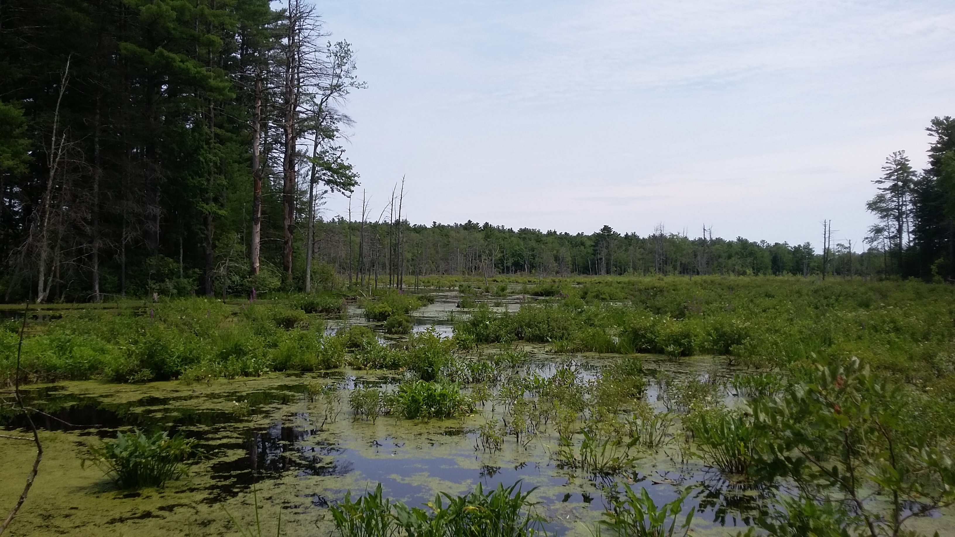 Assabet River Wildlife Sanctuary in Maynard MA